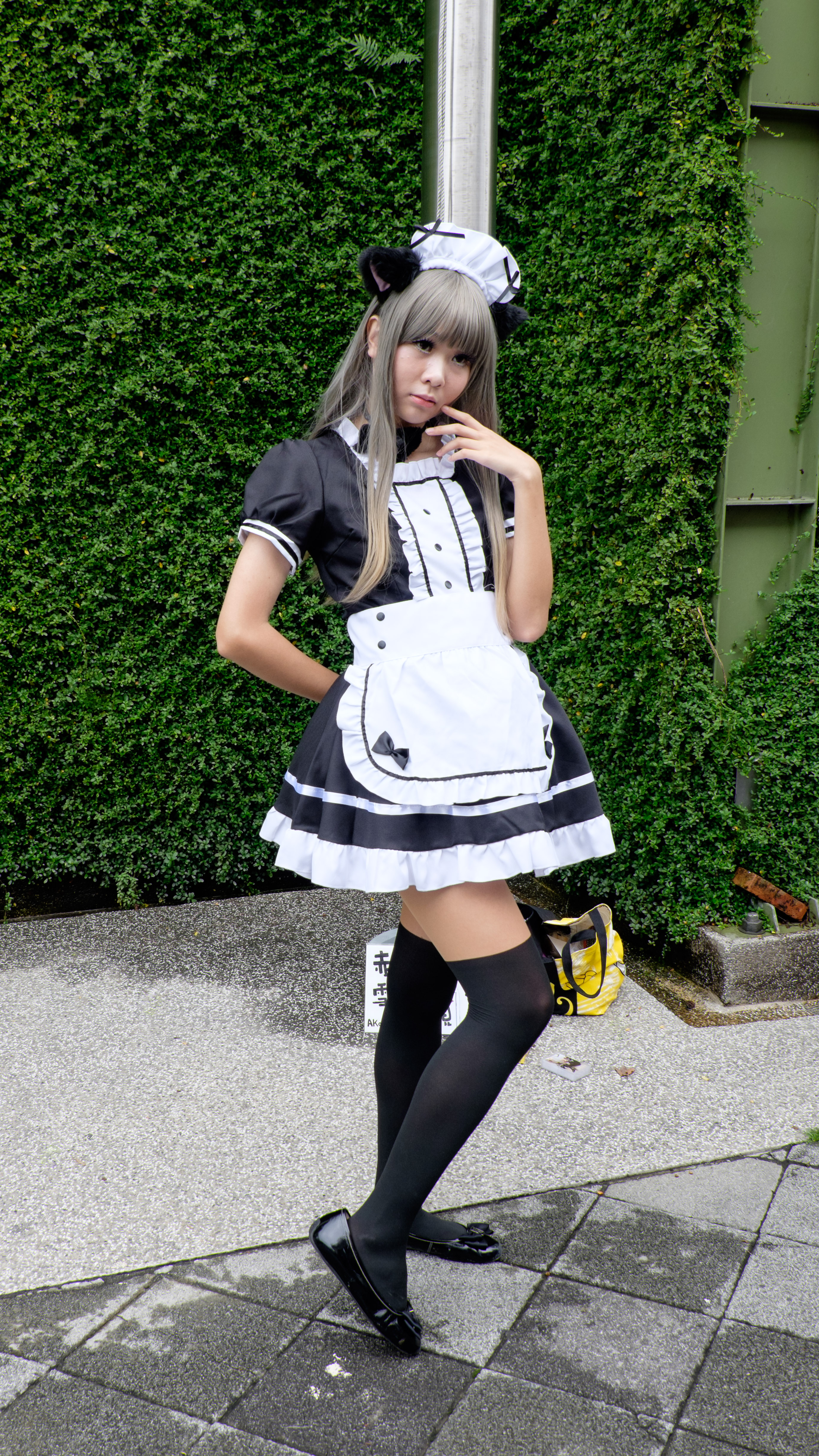 中文（台灣）: Fancy Frontier 26第一日上午，赤雪雅子cosplay原創貓耳女僕。